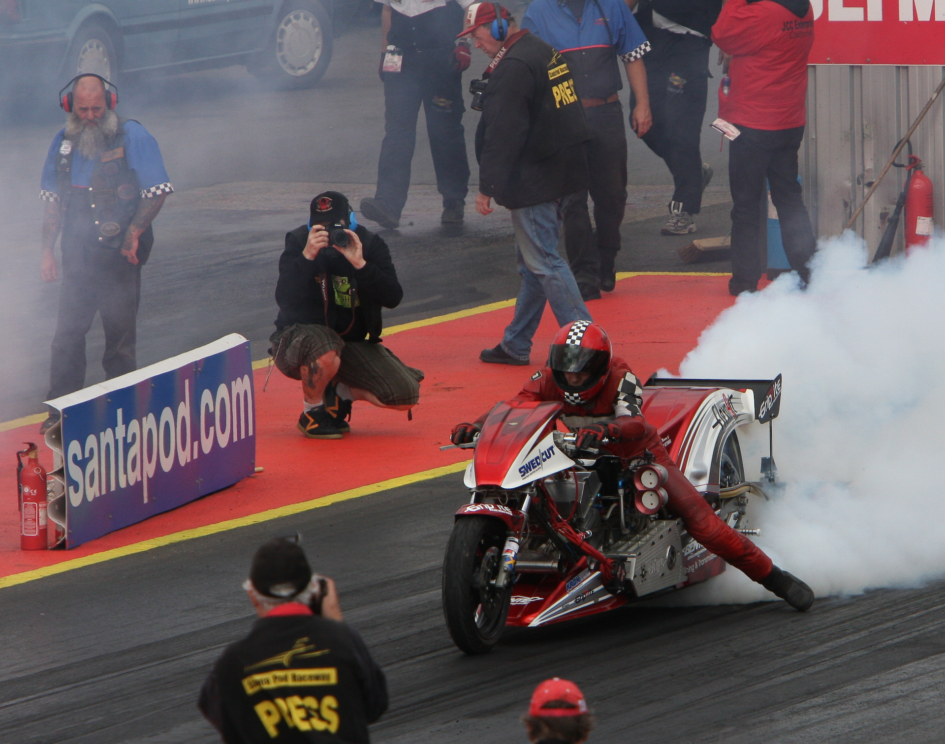 UEM Super Twin Bike racing at Santa Pod, 2008, Per Bengtsson